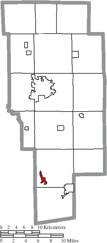 Map of the municipal and township boundaries of Ashland County, Ohio, United States, as of the 2000 census, with the location of the village of Perrysville highlighted. Township borders are shown only in unincorporated areas in order to differentiate incorporated and unincorporated areas more clearly.